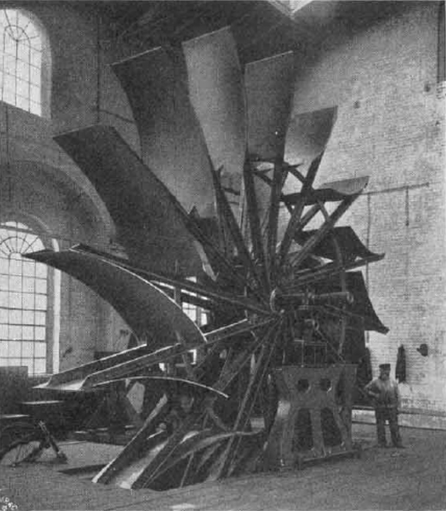 The ventilation fan for the mine, (diameter 8,6 m), made probably by Donnersmarckhütte (later Huta Zabrze in Zabrze, Poland).